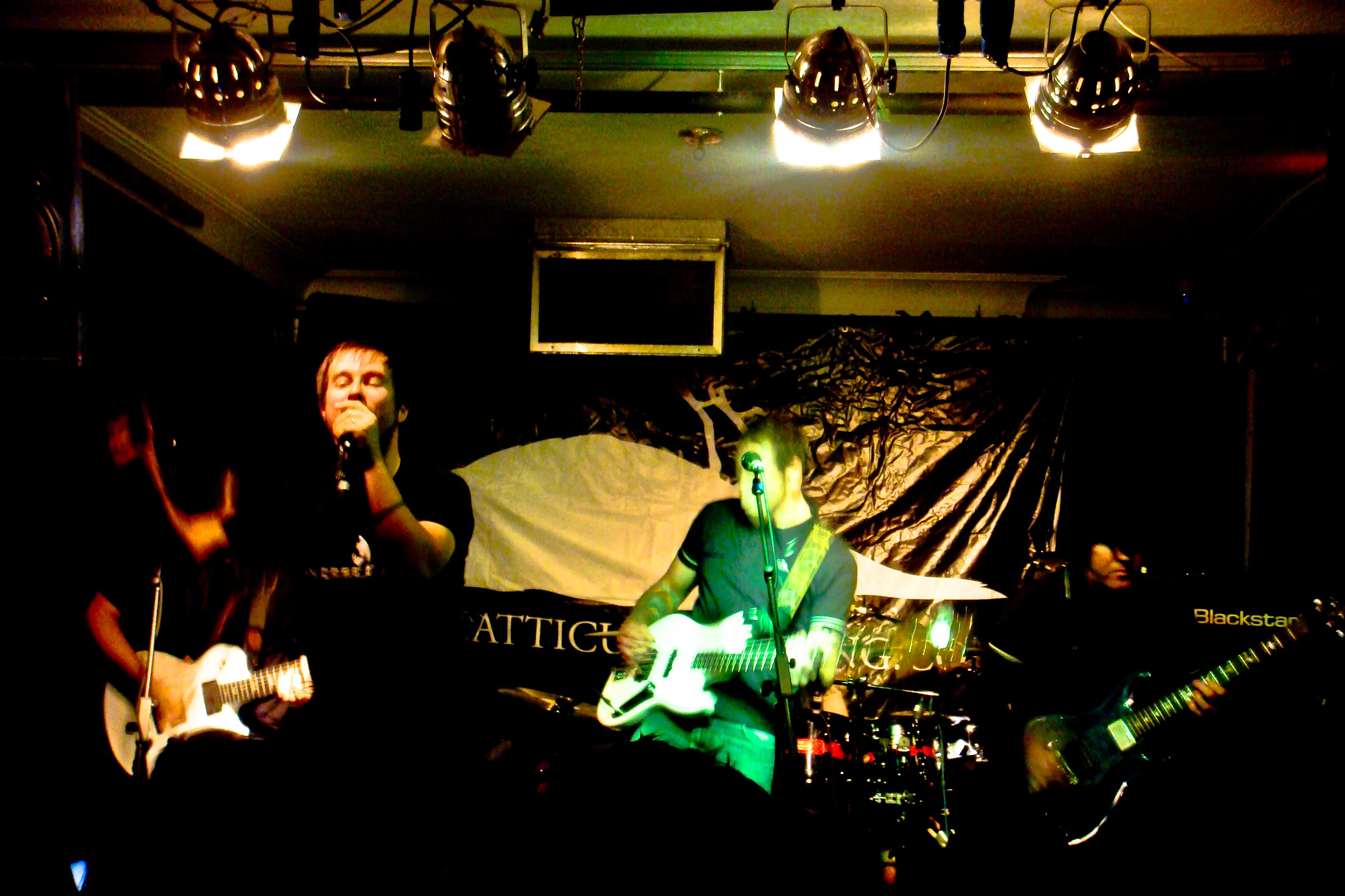 Funeral for a Friend at the old blue last pub